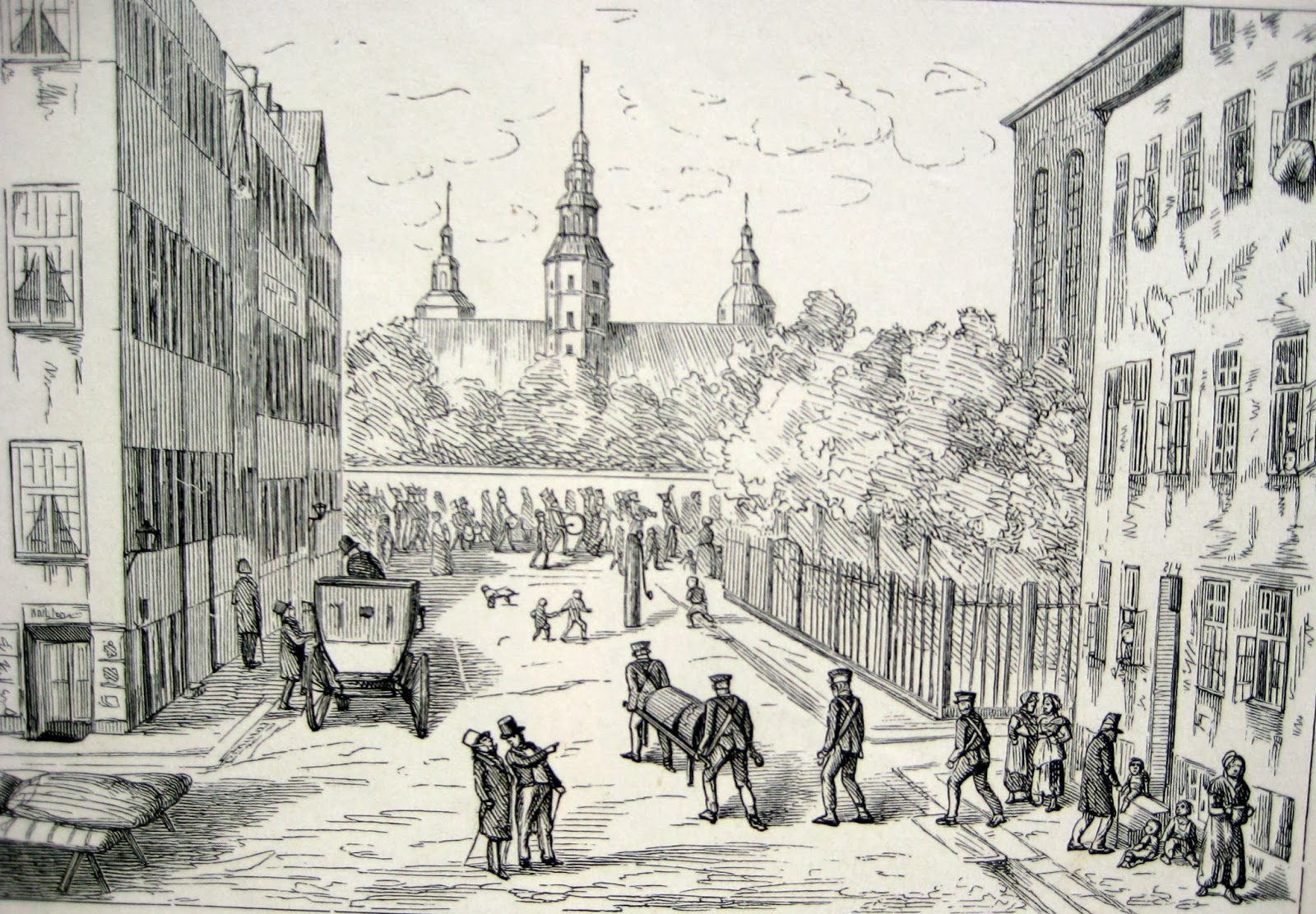 The street Rosenborggade with Royal Life Guards on Gothersgade and Rosenborg Castle in the background in Copenhagen, Denmark. Phaltenborg is visible to the right